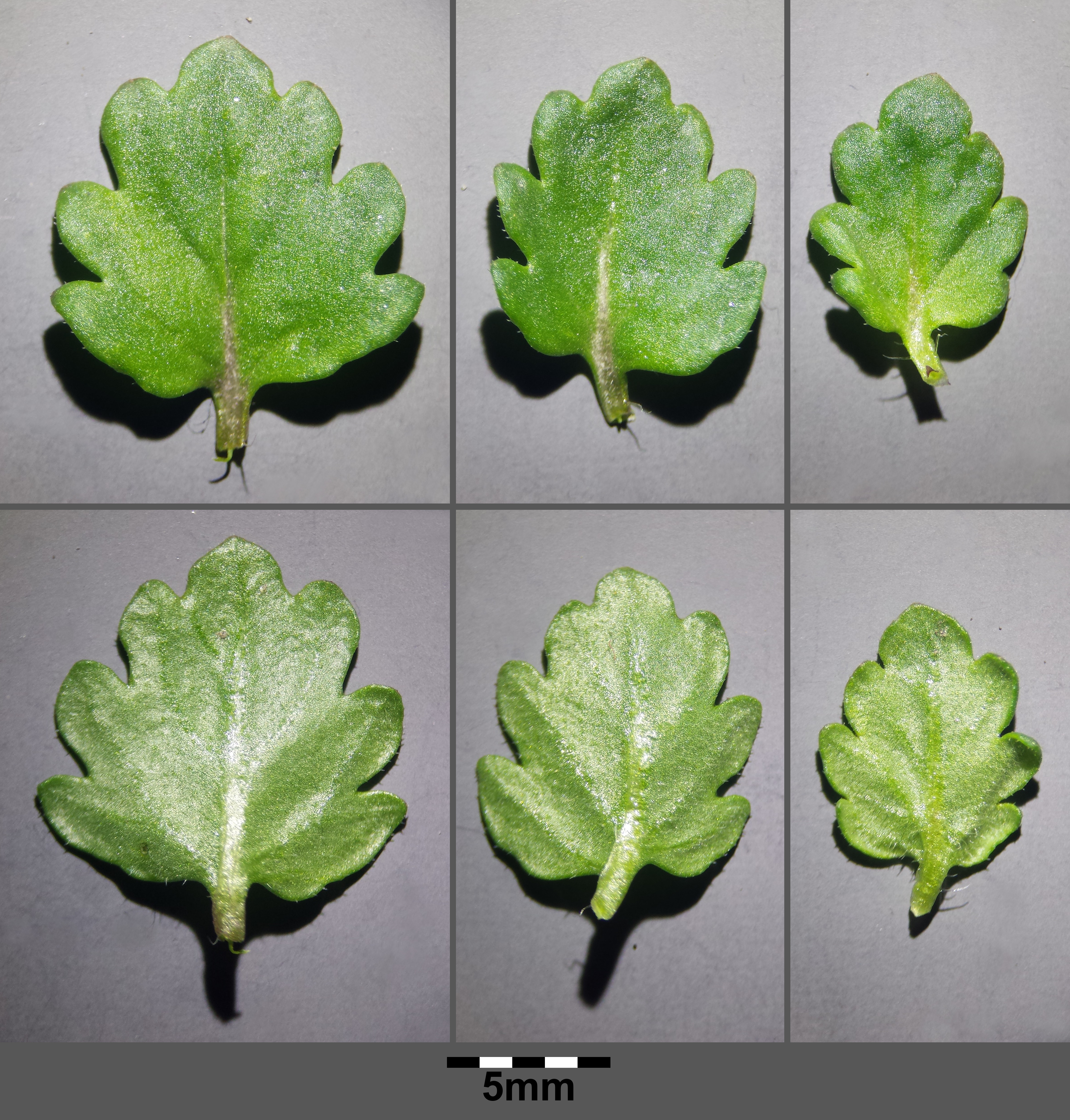 Bracts Above: top sides, below: bottom sides Taxonym: Veronica polita ss Fischer et al. EfÖLS 2008 ISBN 978-3-85474-187-9 Location: Pragerstraße/O'Brien-Gasse/Am Nordwestbahnhof, Vienna-Floridsdorf - ca. 160 m a.s.l. Habitat: abandoned allotment